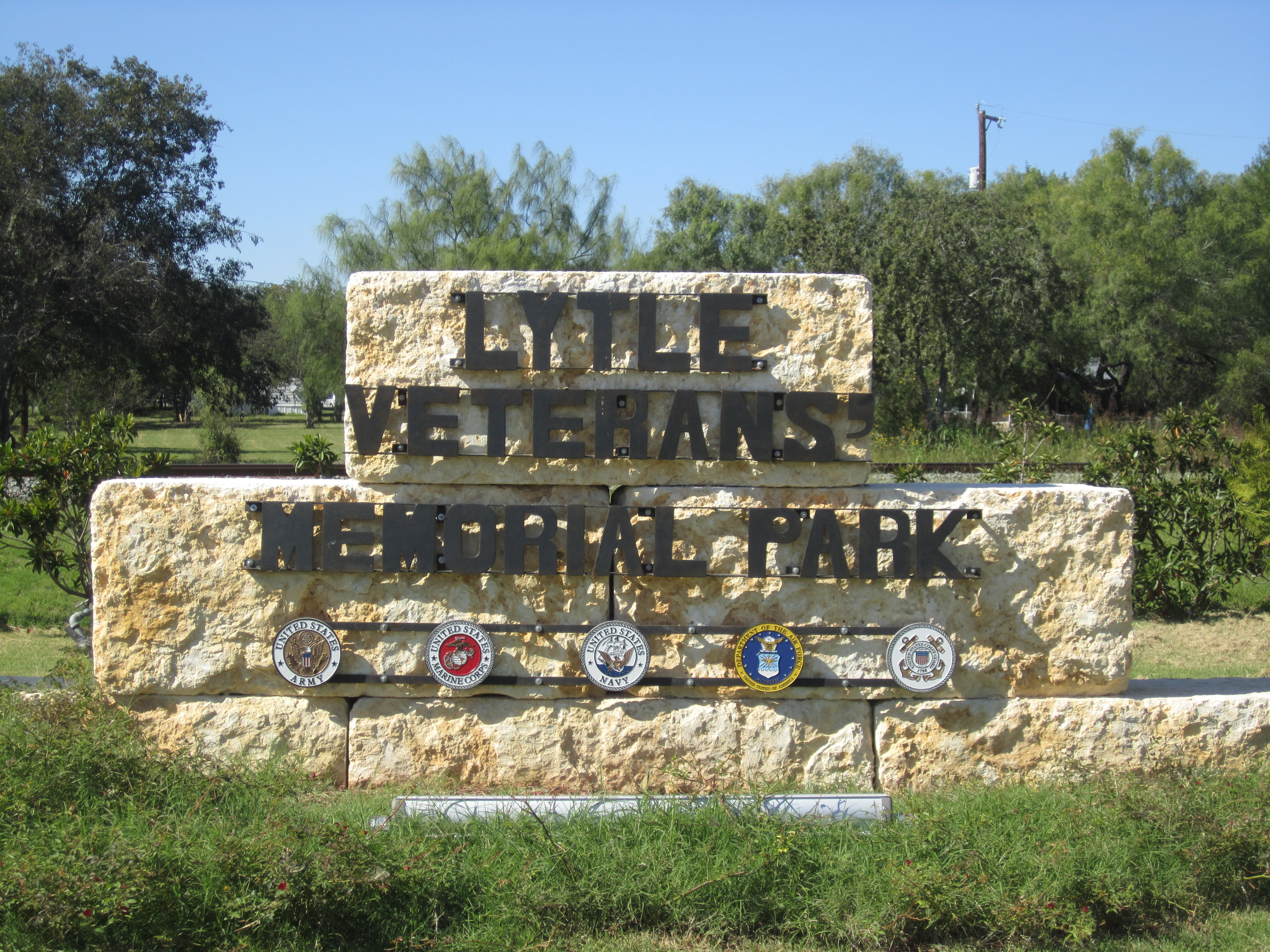 I took photo in Lytle, TX, with Canon camera.